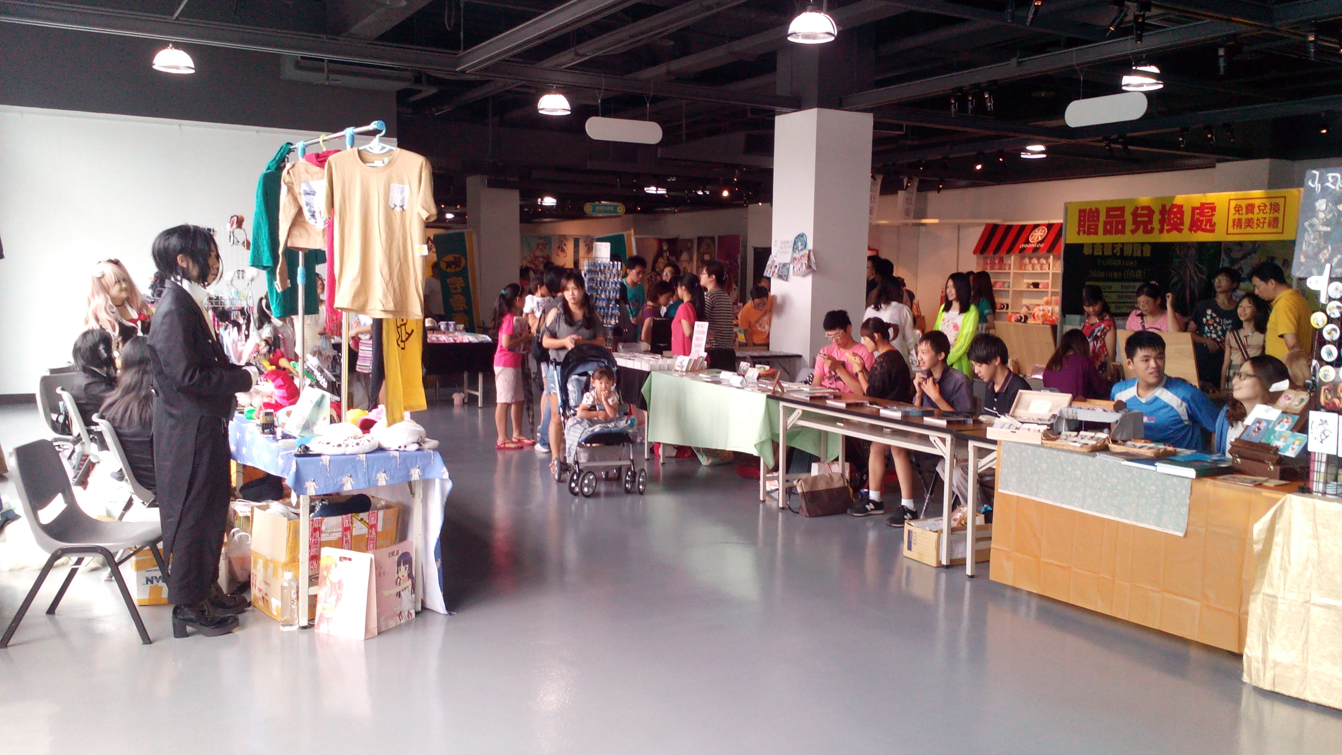 2014 Taoyuan International ACGT Fair - Holiday ACG Market.